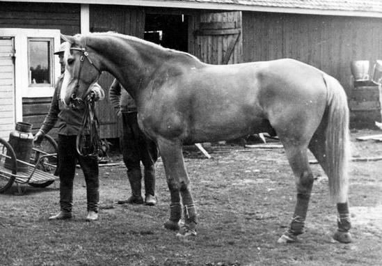 Reipas in Kortesjärvi, 1959.